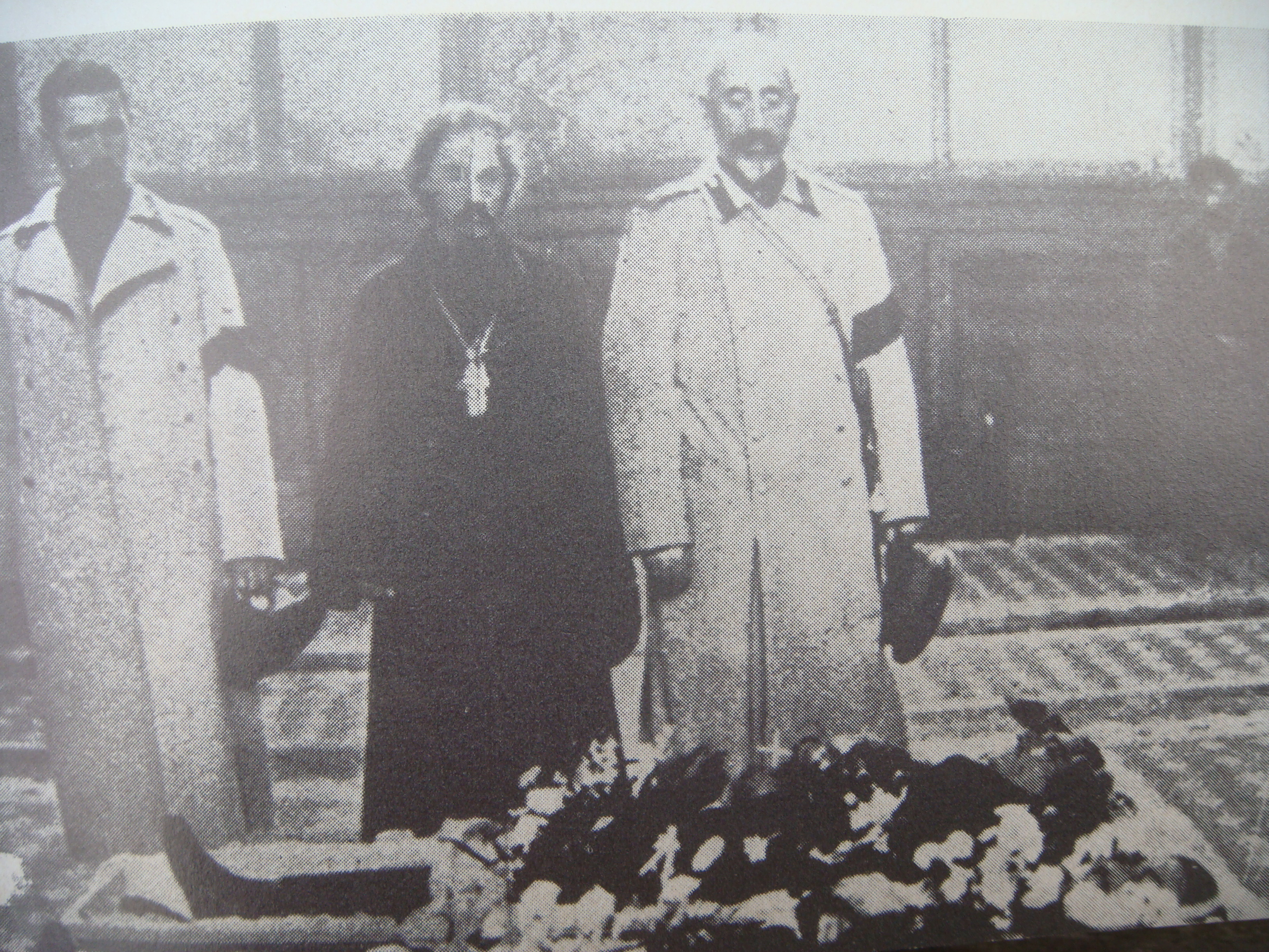 Mutiny on board Russian battleship Knyaz Potemkin of June 1905.